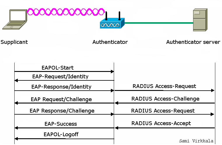 Sequenza autenticazione IEEE 802.1x